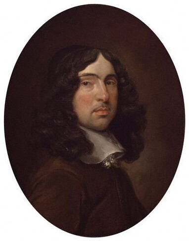 Andrew Marvell (1621–1678)